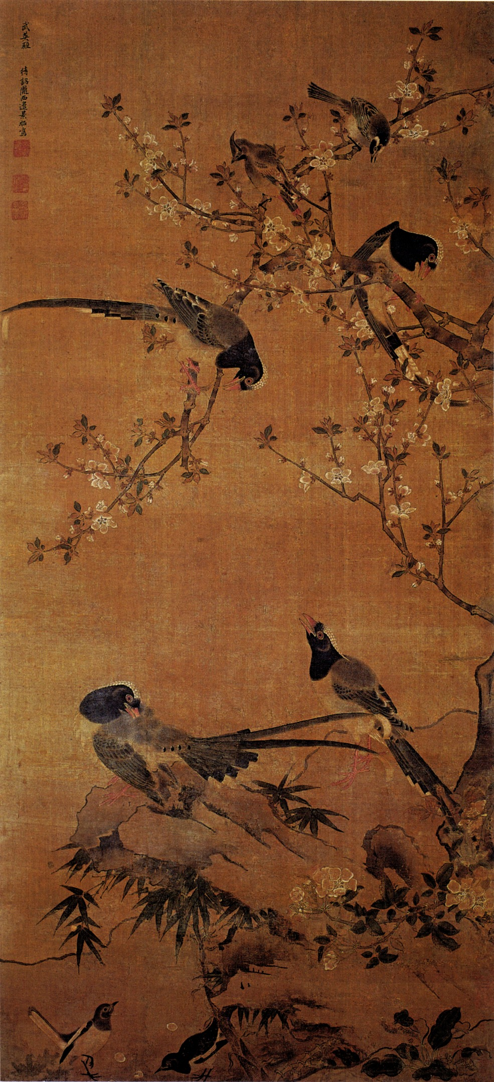 Birds Flocking at Flowers and Bamboo, hanging scroll, Color on silk, 137.7 x 65.5 cm. Located at the Shanghai Museum. An alternate name is Spring Birds and Flowering Trees.